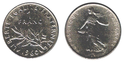 Coin of 1 french franc (1960)